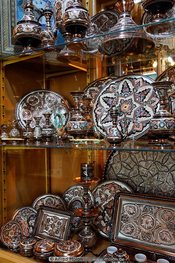 Persian HC